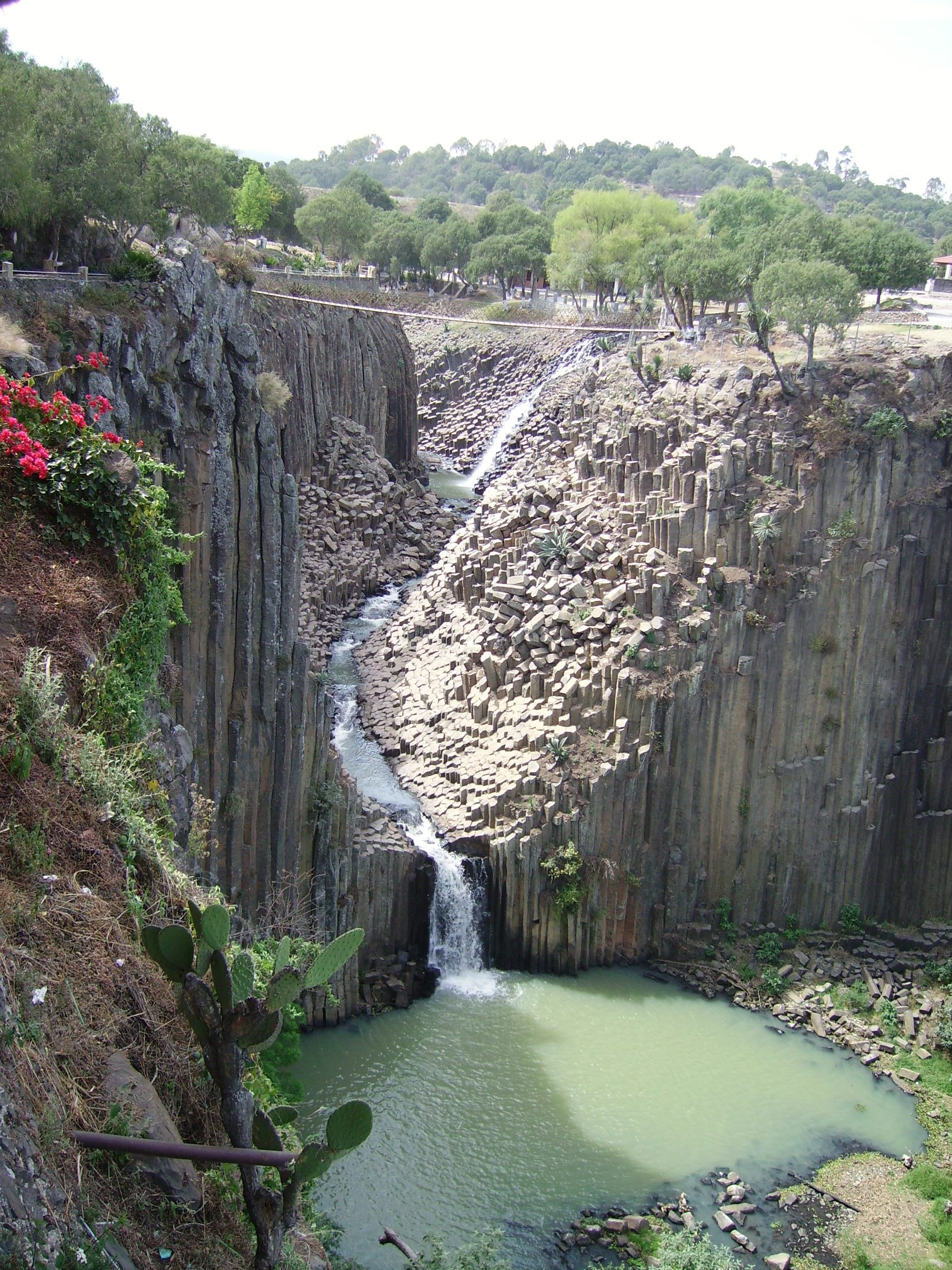 The phote shows the basaltic prisma in Hidalgo Mexico